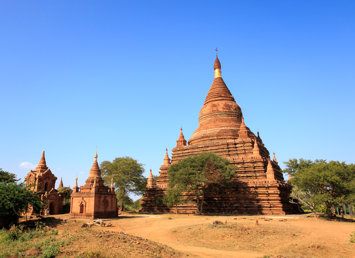 Somingyi Kyaung temple. The temple is located just south of Nagayon in Bagan, Myanmar / Burma.